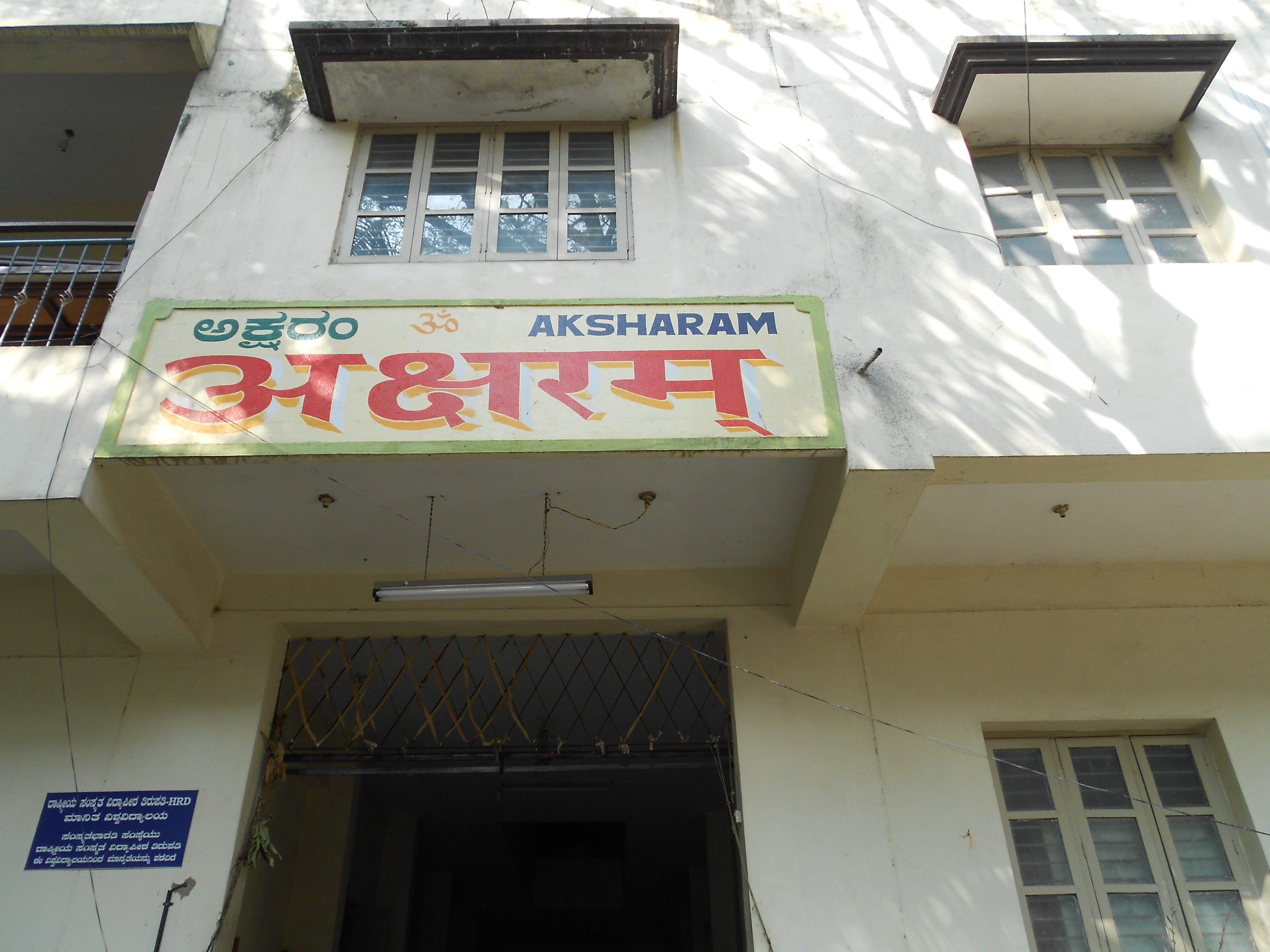 Samskrit Bharati building named Aksharam at Girinagar, Bangalore